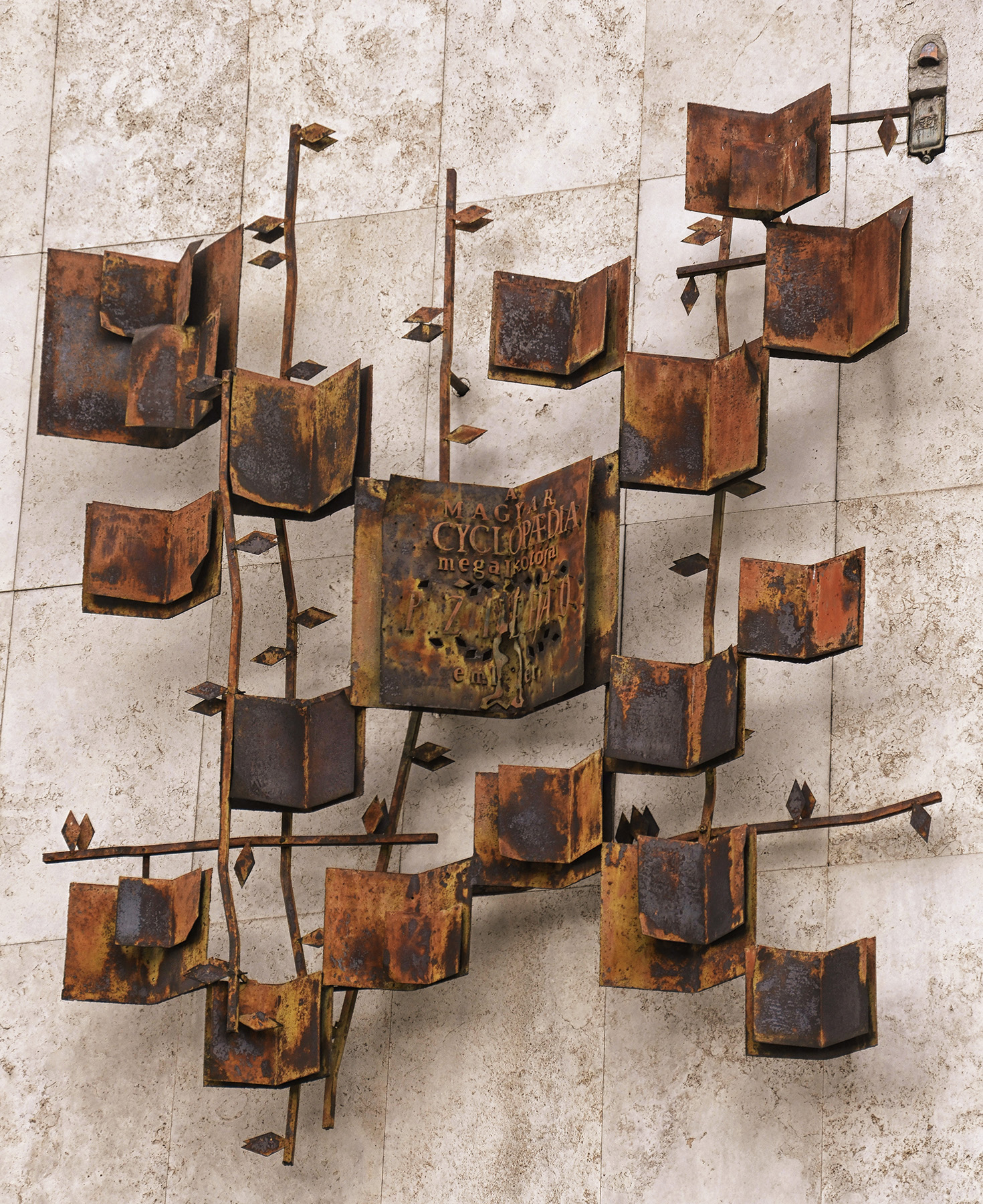 The János Apáczai Csere Memorial Sign (Tibor Vilt, 1961) in the János Apáczai Csere Street in Budapest